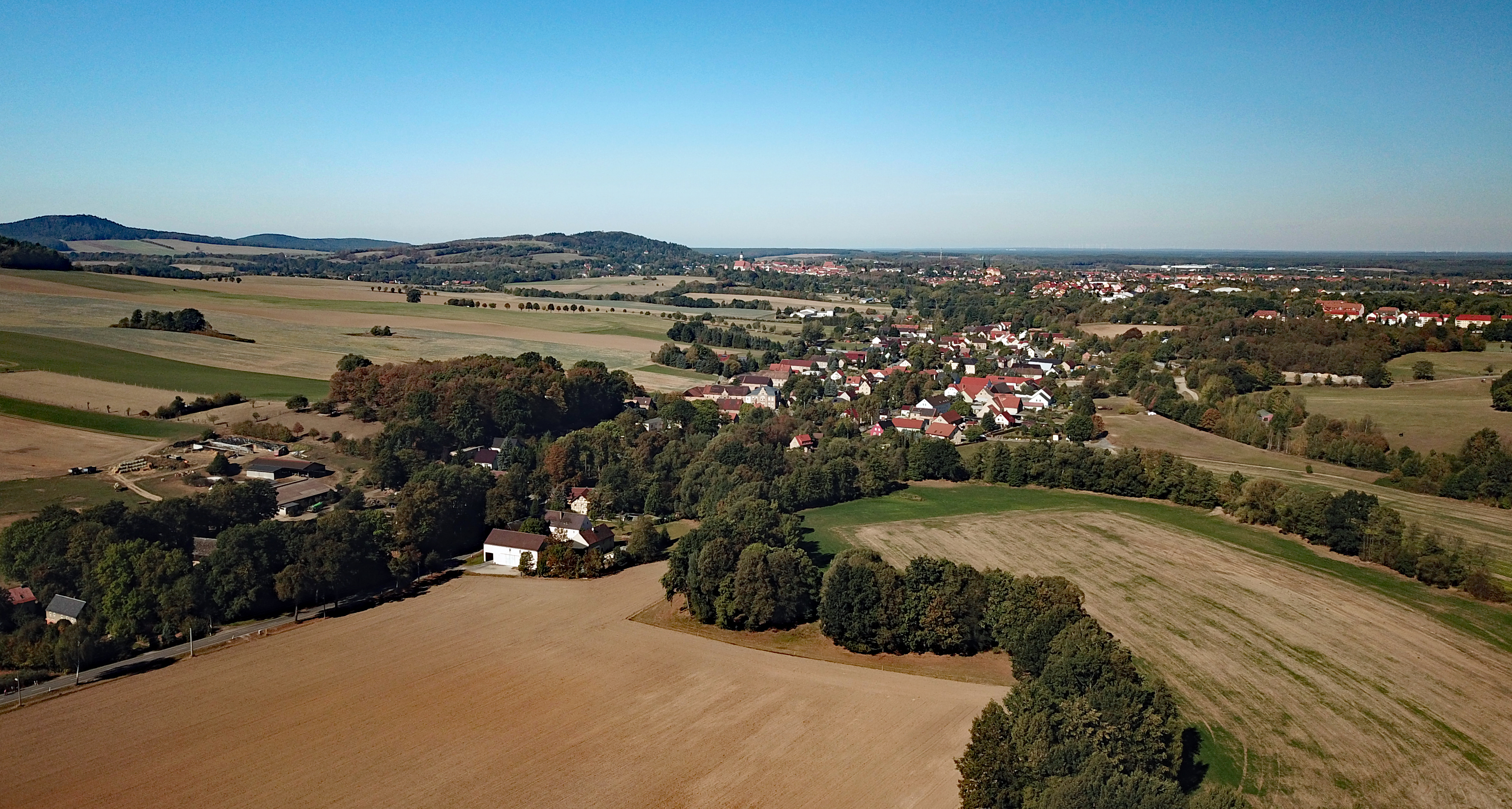 Wiesa (Kamenz, Saxony, Germany) Hornjoserbsce: Powětrowy wobraz Brěznje